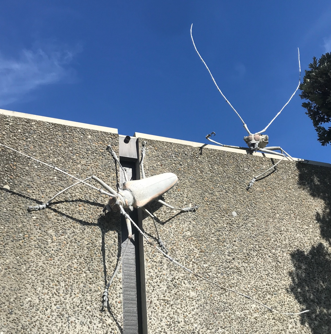 Two of the four sculptures in Batocera longhorns & Goliath (1996), by Elizabeth Thomson, mounted on the exterior of Te Manawa, Palmerston North. Polychrome and bronze. Sculpted from specimens originally from Queensland, now in the collection of Te Papa. Commissioned in 1996 as part of the Gertrude Raikes (1882–1985) Bequest.